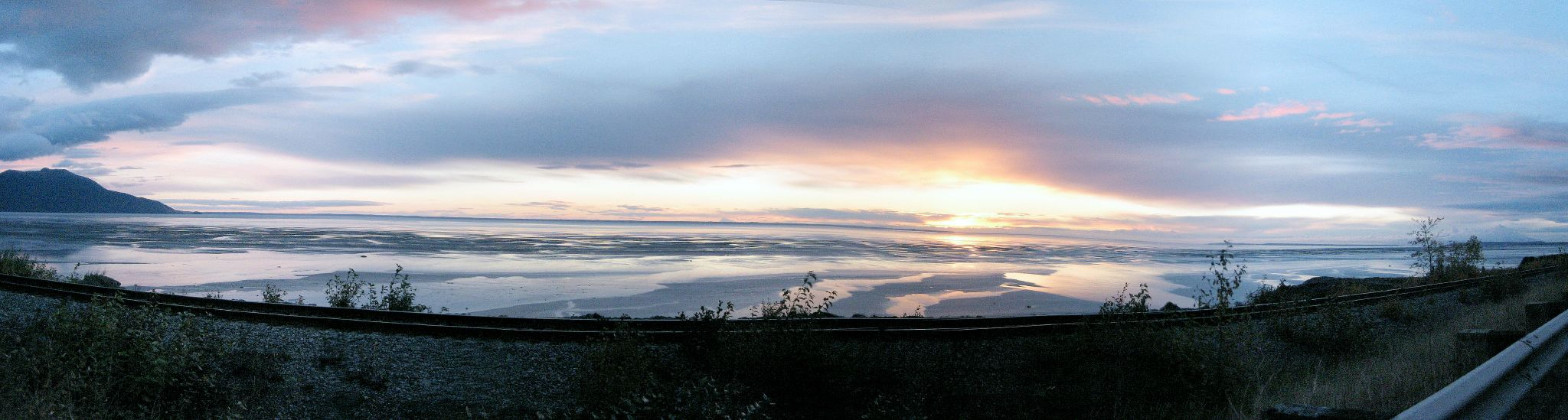 This is a eight-photo panorama of Cook Inlet's Turnigan Arm, a few miles south of Anchorage, Alaska. The tide's out.Turnigan Arm, Cook Inlet, Alaska